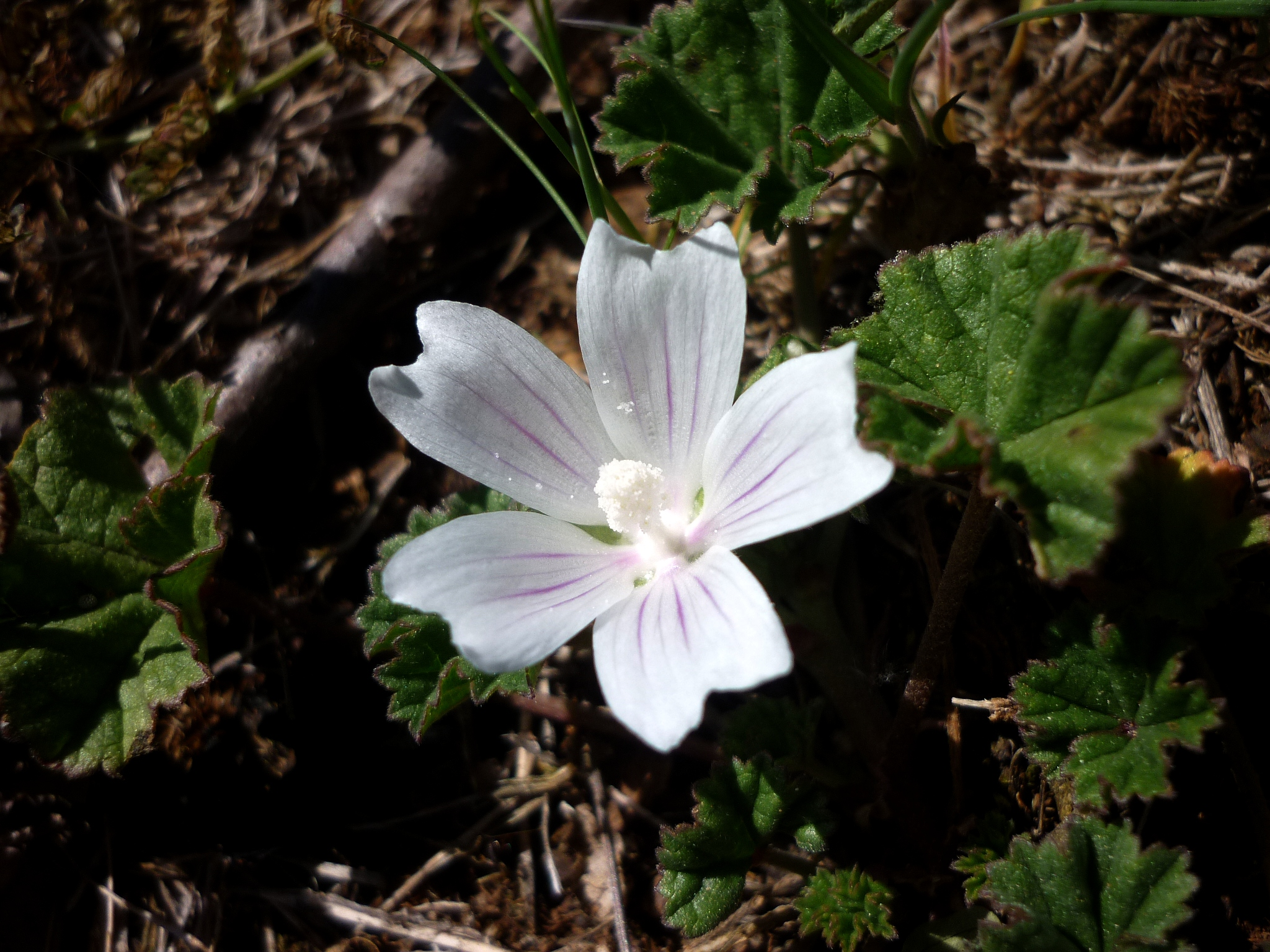 Malva neglecta. In la Baronia de Rialb (Noguera-Catalunya). To 920 m. altitude